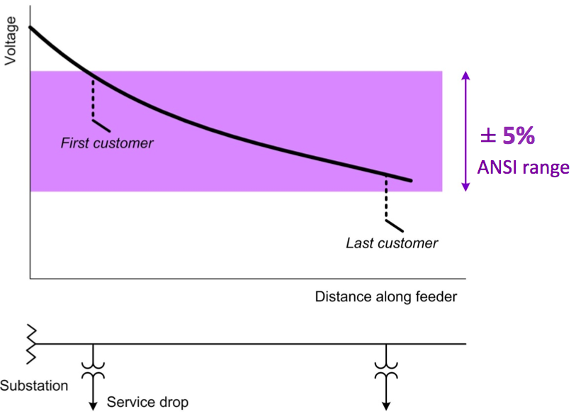 Diagram of voltage magnitude profile versus distance along a distribution feeder, without line regulators or capacitors